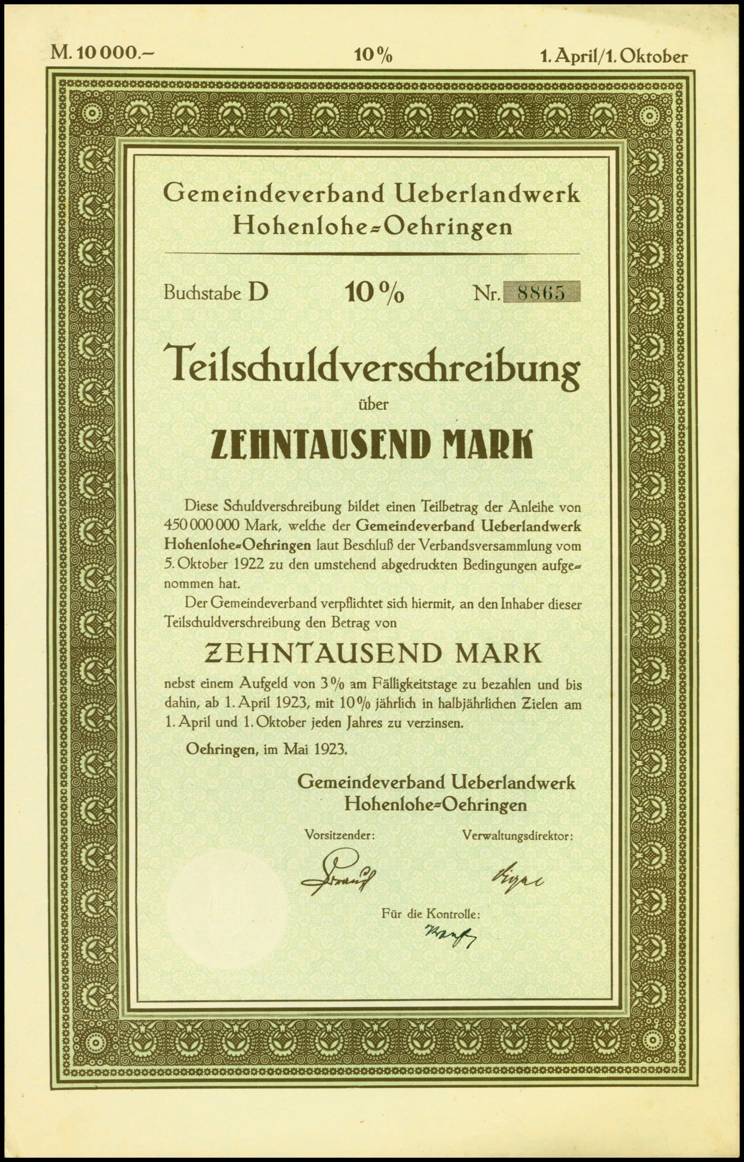 Bond of the Gemeindeverband Ueberlandwerk Hohenlohe-Oehringen, issued May 1923